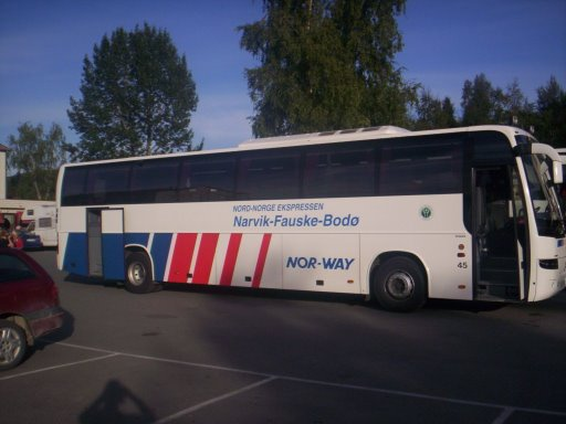 A Nor-Way bussekspress bus stopped between Fauske and Narvik.